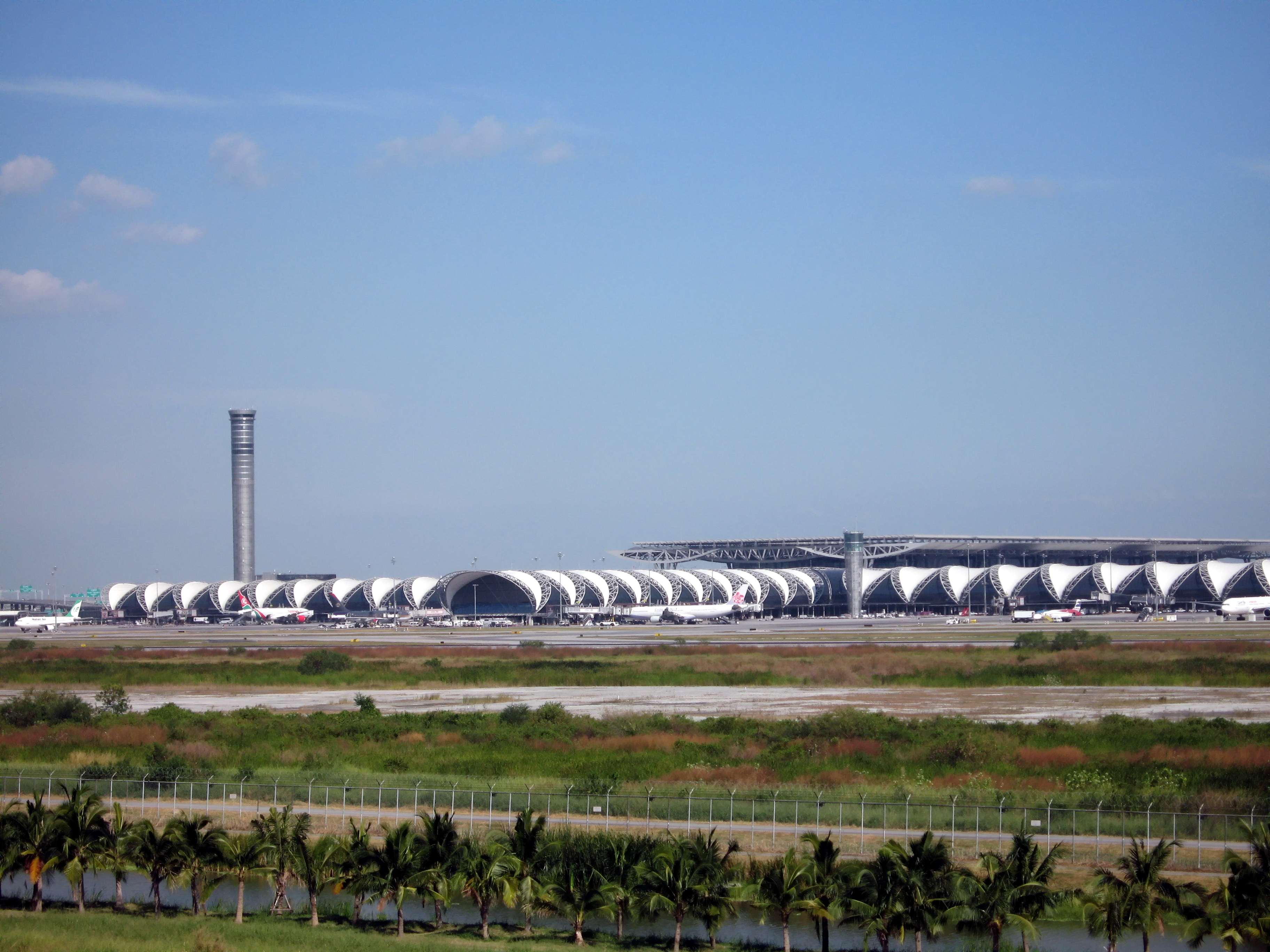 Sky clear@Suwarnabhumi Airport